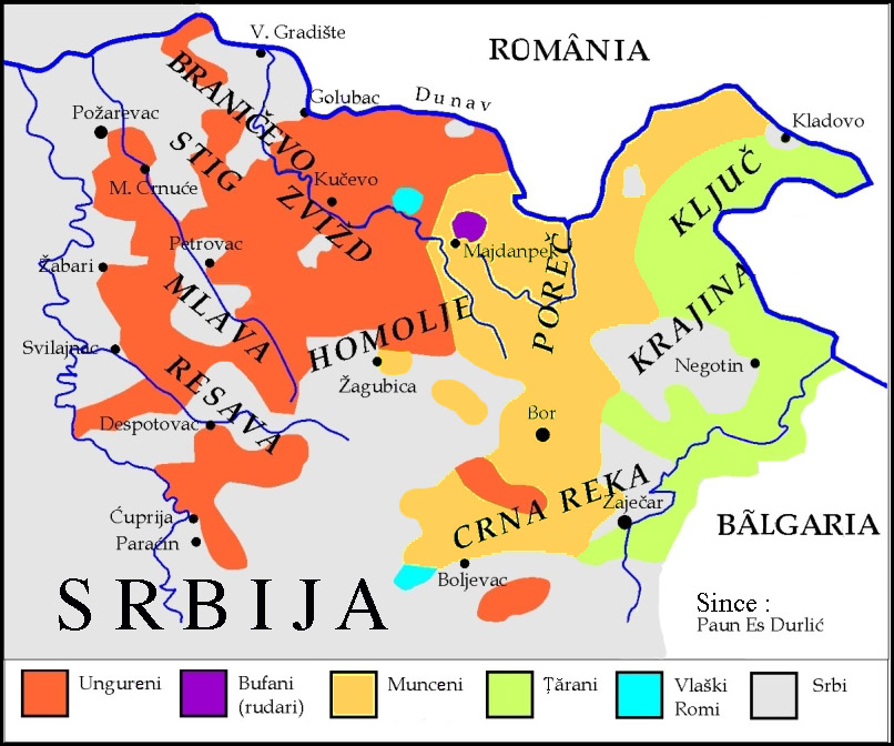 Map of romanian-speaking "Vlachs" of the Iron Gates, Serbia